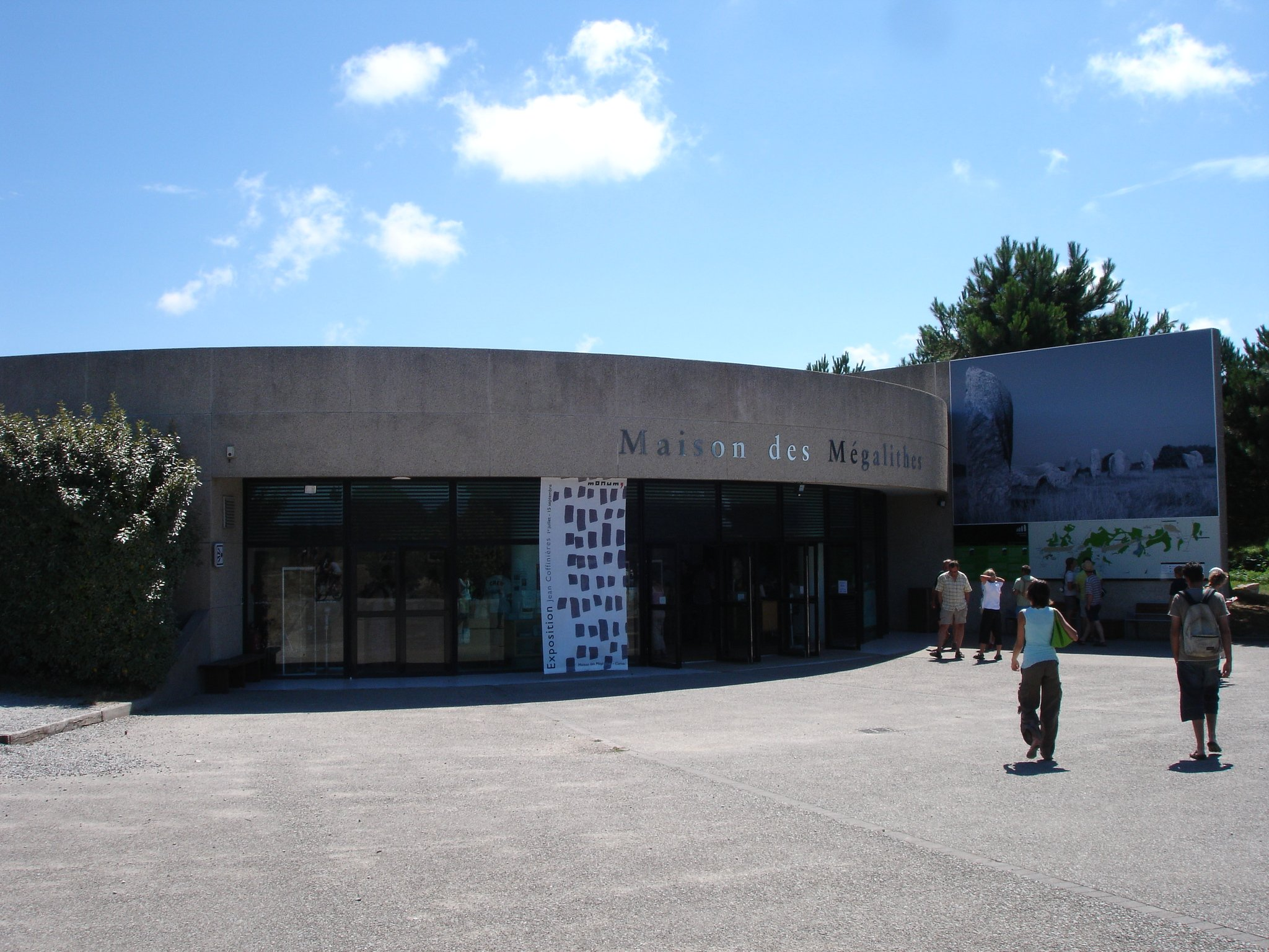 France, Morbihan, Carnac, Megaliths house